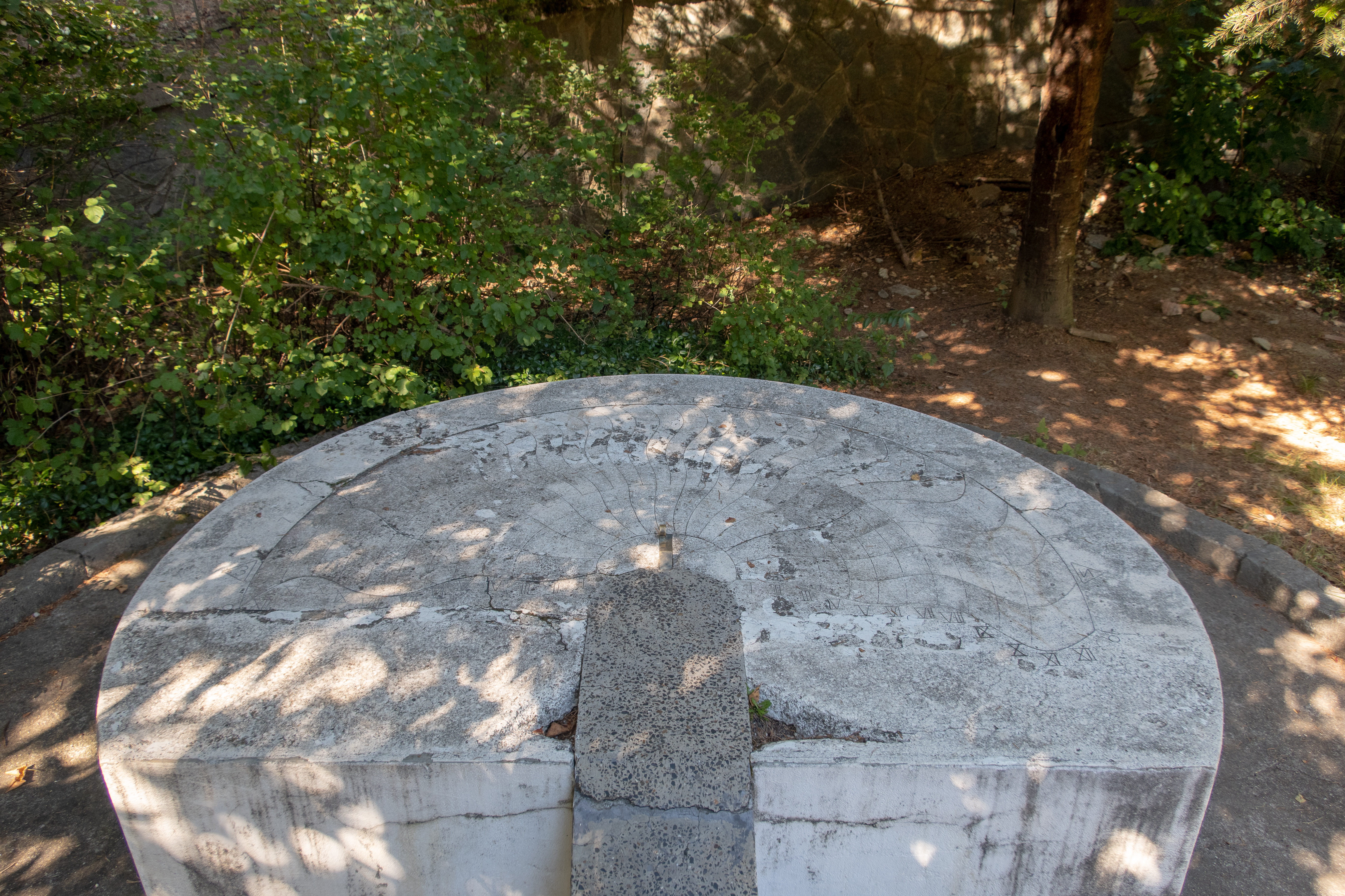 Smolyan Planetarium